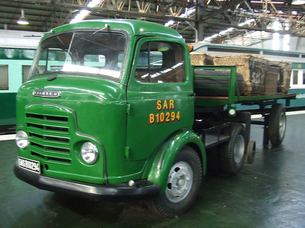 Karrier Bantam, c 1952, at the Outeniqua Railway Museum, George, South Africa